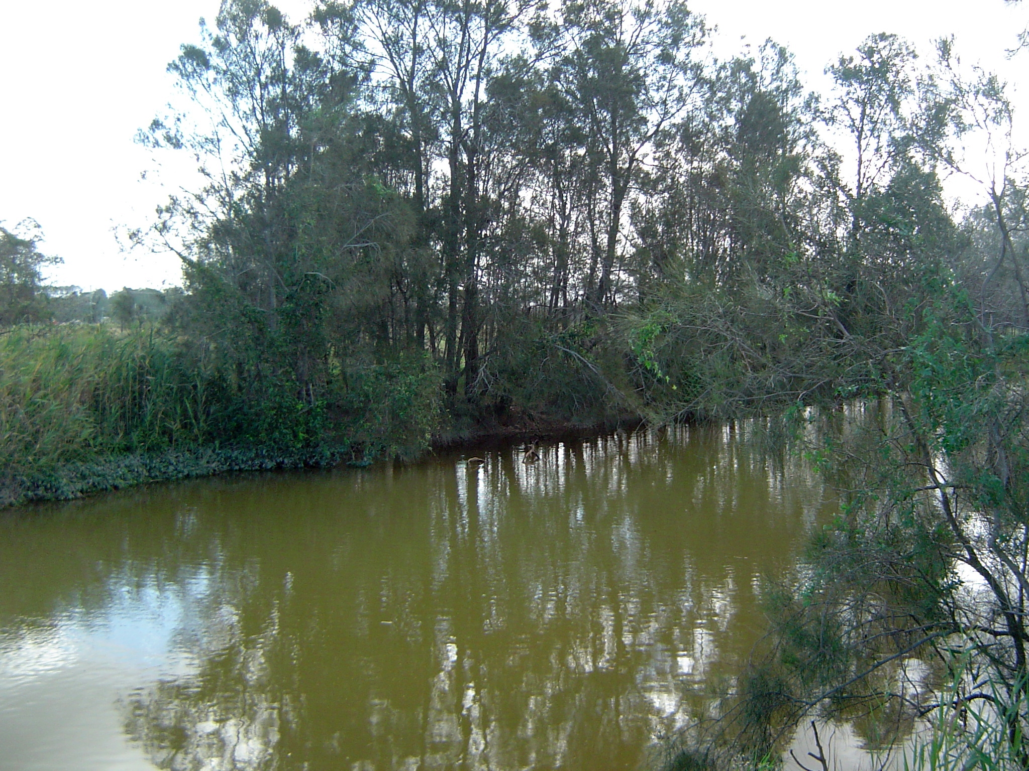 Photo of Pimpama River at Pimpama, Queensland, Australia.